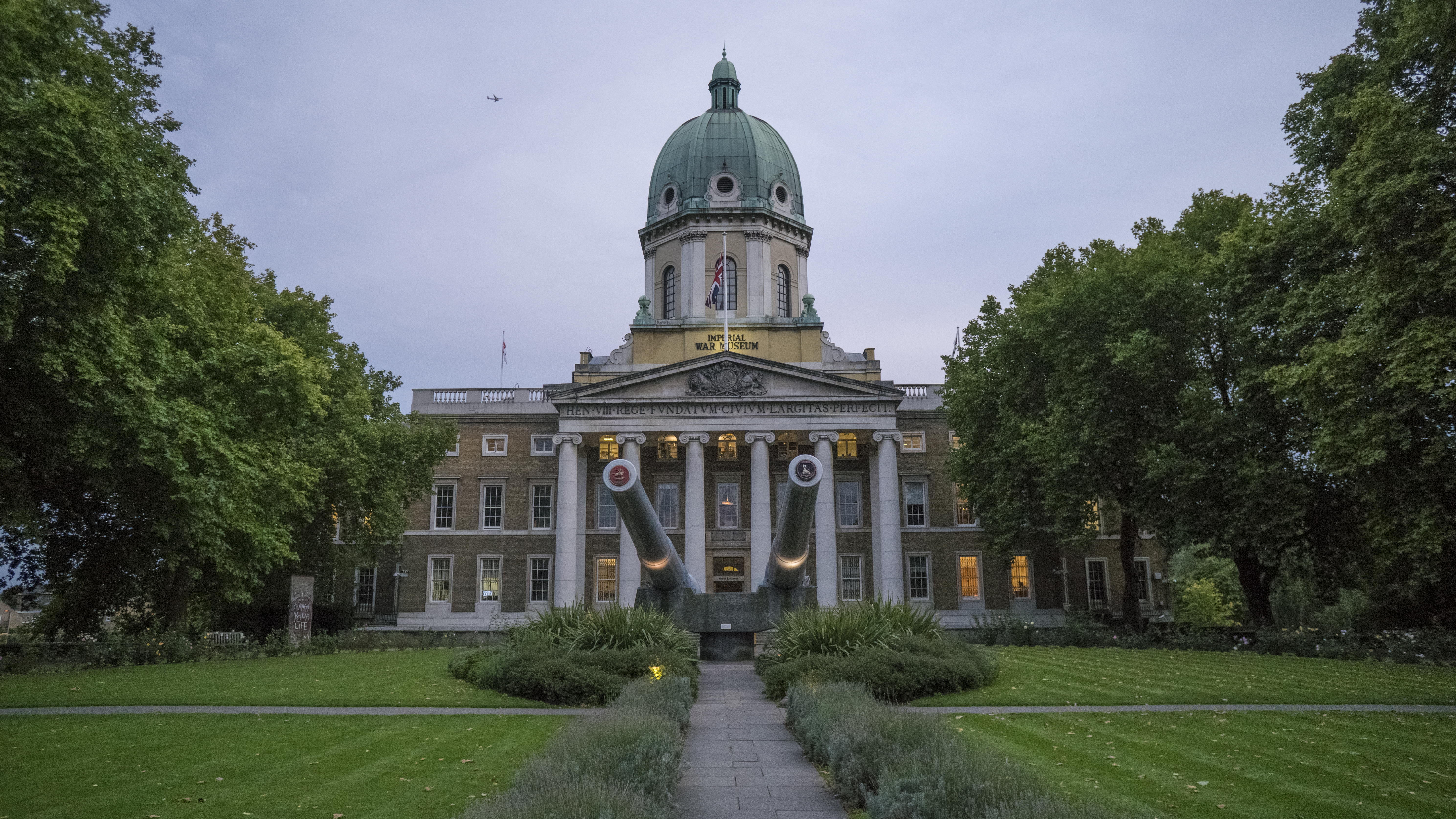 Imperial War Museum, London